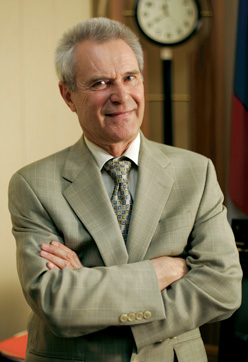 Vladimir A. Babeshko, President of Kuban State University, Doctor of Sciences (Physics and Mathematics), Professor, Full Member of the Russian Academy of Science.